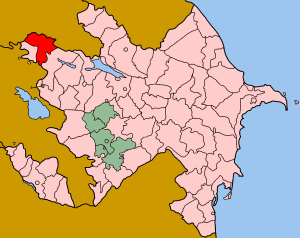 Map of Azerbaijan showing Agstafa (Ağstafa) rayon.